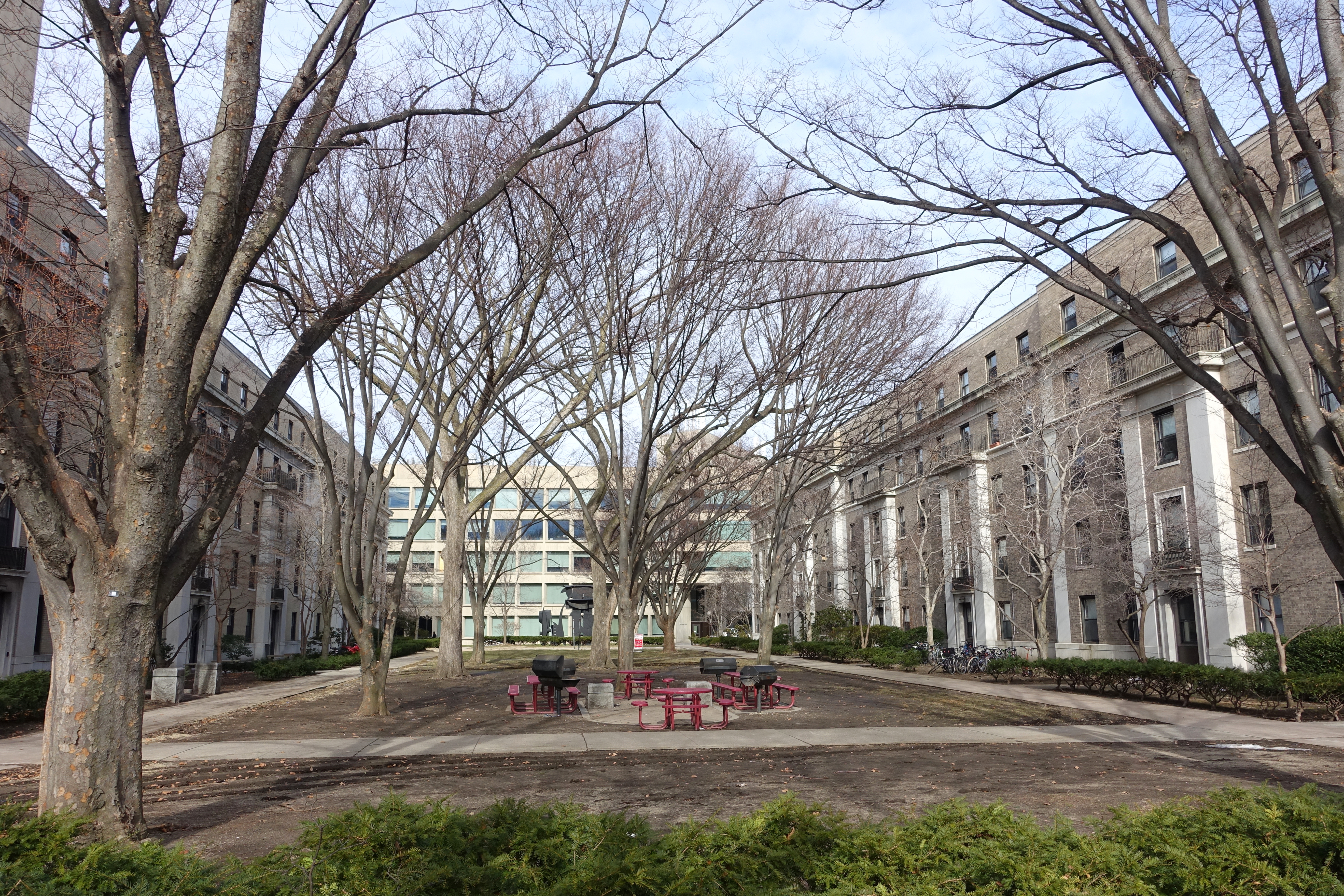 The space between the two buildings (Bulding 62, left, and 64, right) of MIT's East Campus dormitory in Cambridge, Massachusetts.